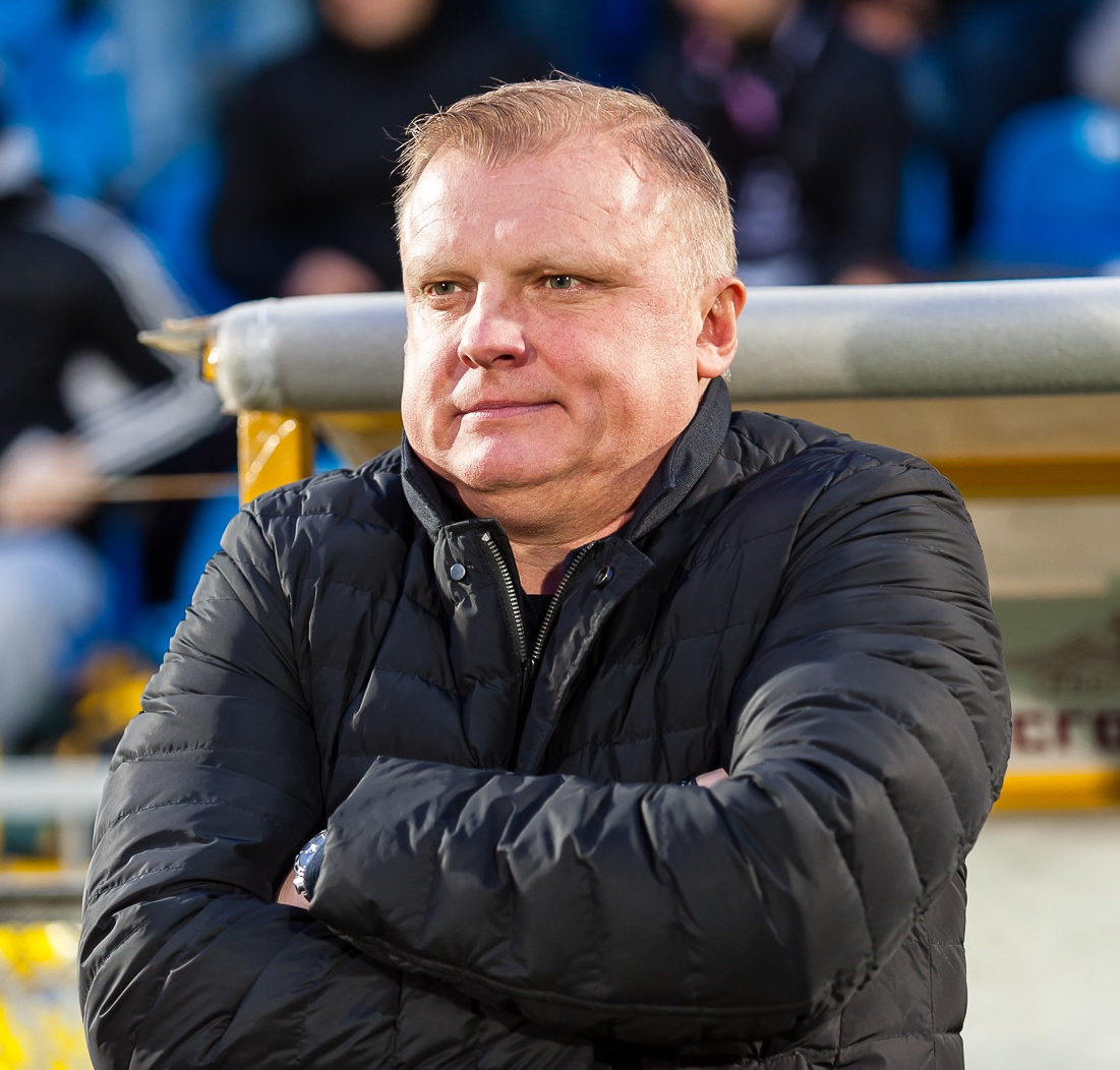 Sergei Kiriakov managing FC Arsenal Tula in a game against FC Rostov.